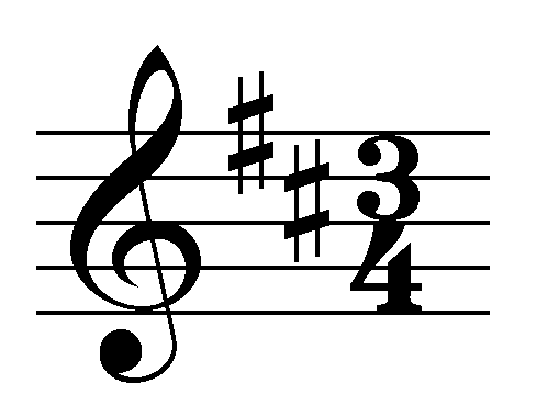 musical notation example (clef, key signature, time signature)